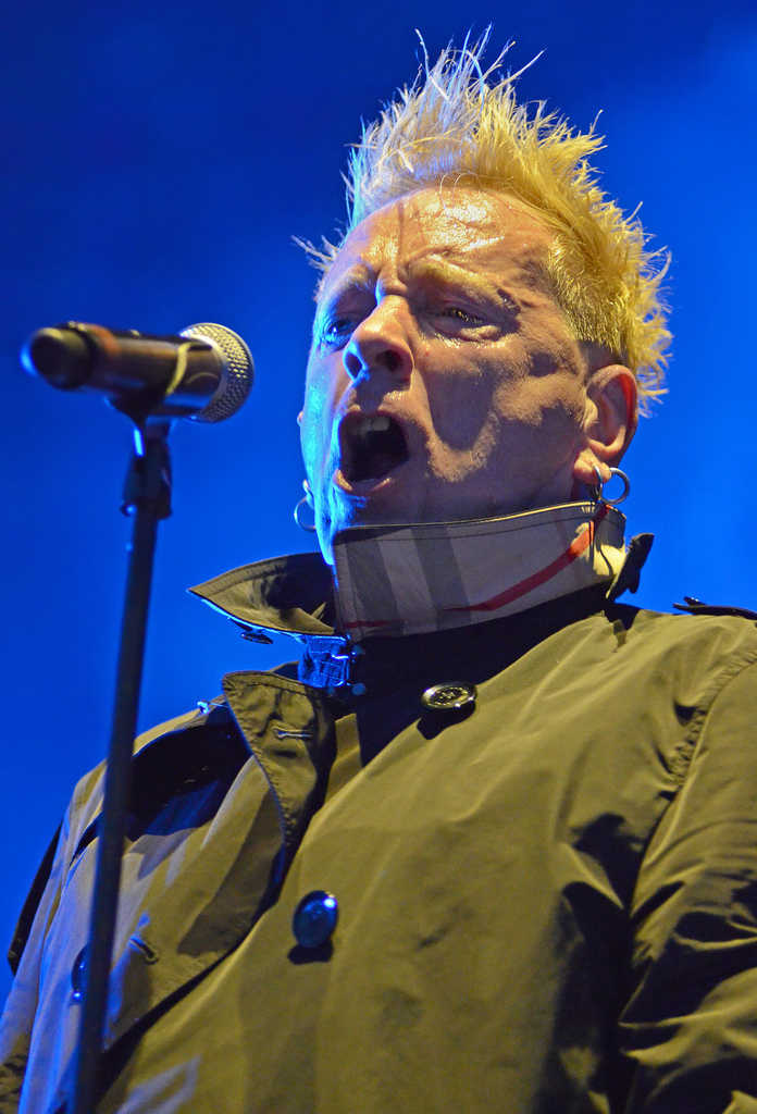 John Lydon, Primavera Sound Festival 2011